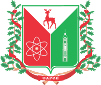 Sarov (Nizhny Novgorod oblast), coat of arms